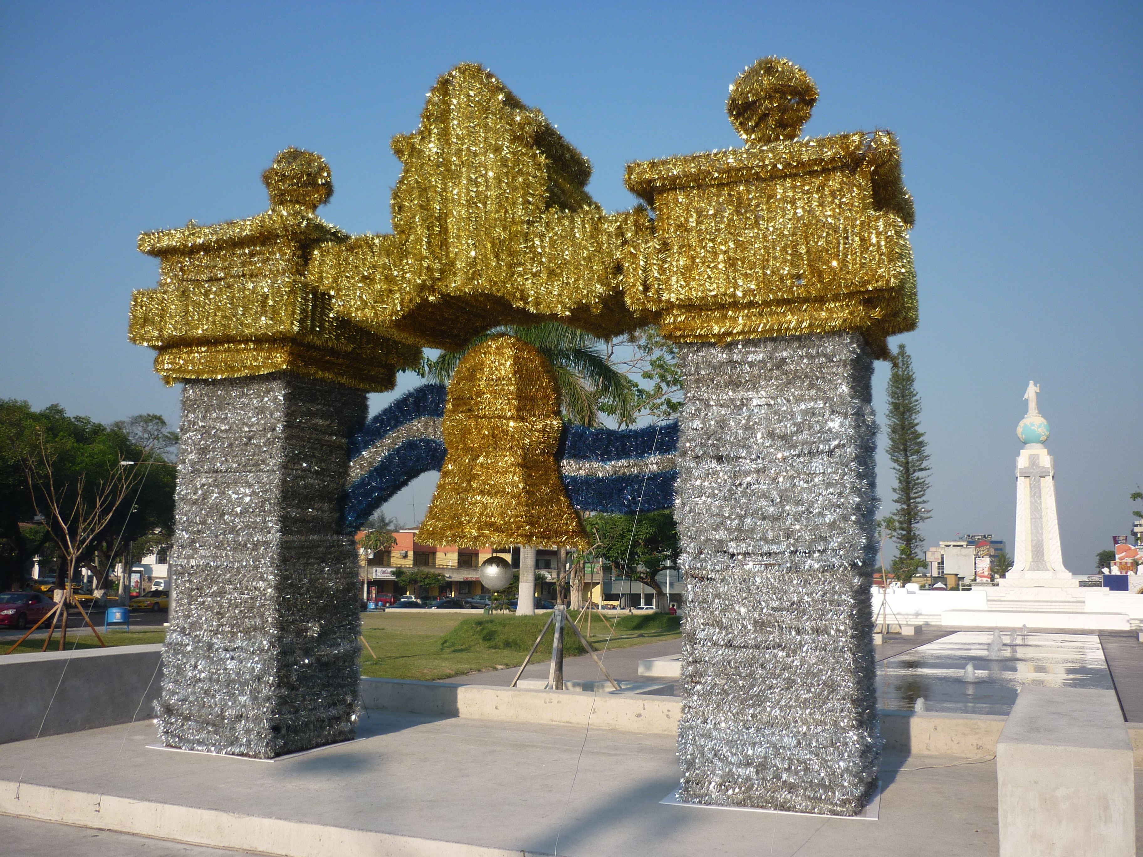 Representation of the steeple of the church "La Merced", commemorating the bicentennial of San Salvador.